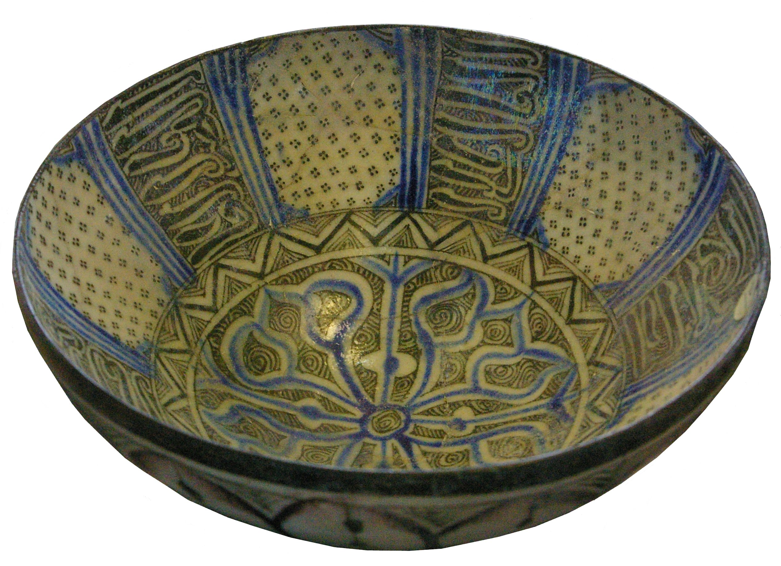 Chinaware from the islamic period, found in Gorgan. Azerbaijan Museum, Tabriz